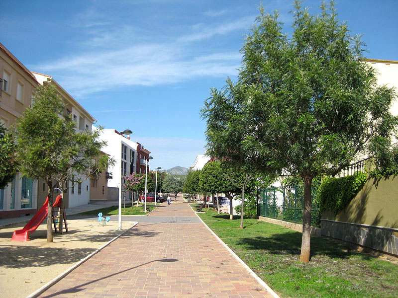 Jaume I promenade, in the heart of Beniabeig, Valencian Country, Spain. Passeig de Jaume I, al cor de Beniarbeig, Marina Alta, País Valencià.